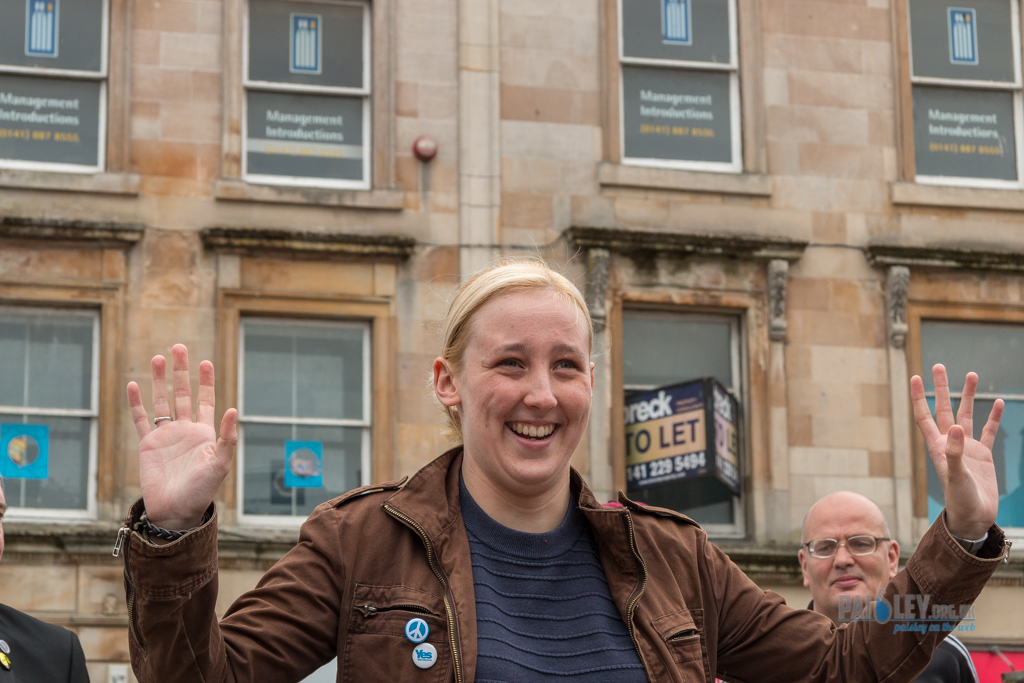 Campaign for Nuclear Disarmament Protestors in Paisley Cross. Attended By Mhairi Black MP, Gavin Newlands MP, George Adam MSP, and others Photographs taken by Brian McGuire for